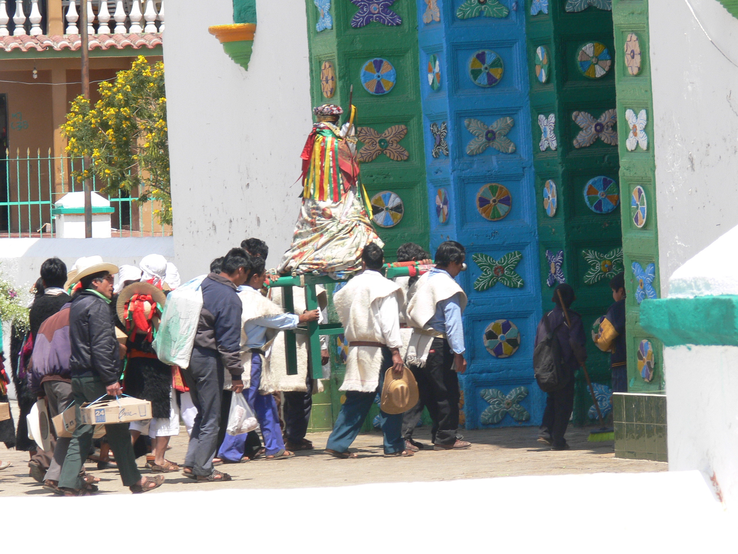 San Juan Chamula ( Chiapas ). Procession on its way to the parish church.